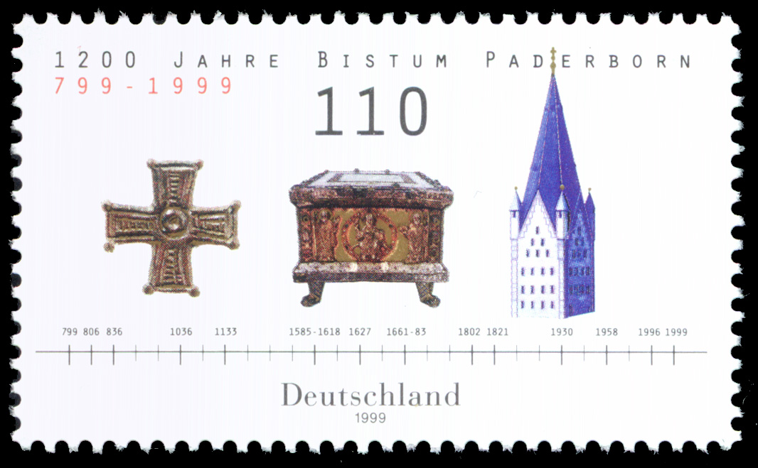 Stamp from Deutsche Post AG from 1999, 1200th anniversary of Roman Catholic Archdiocese of Paderborn